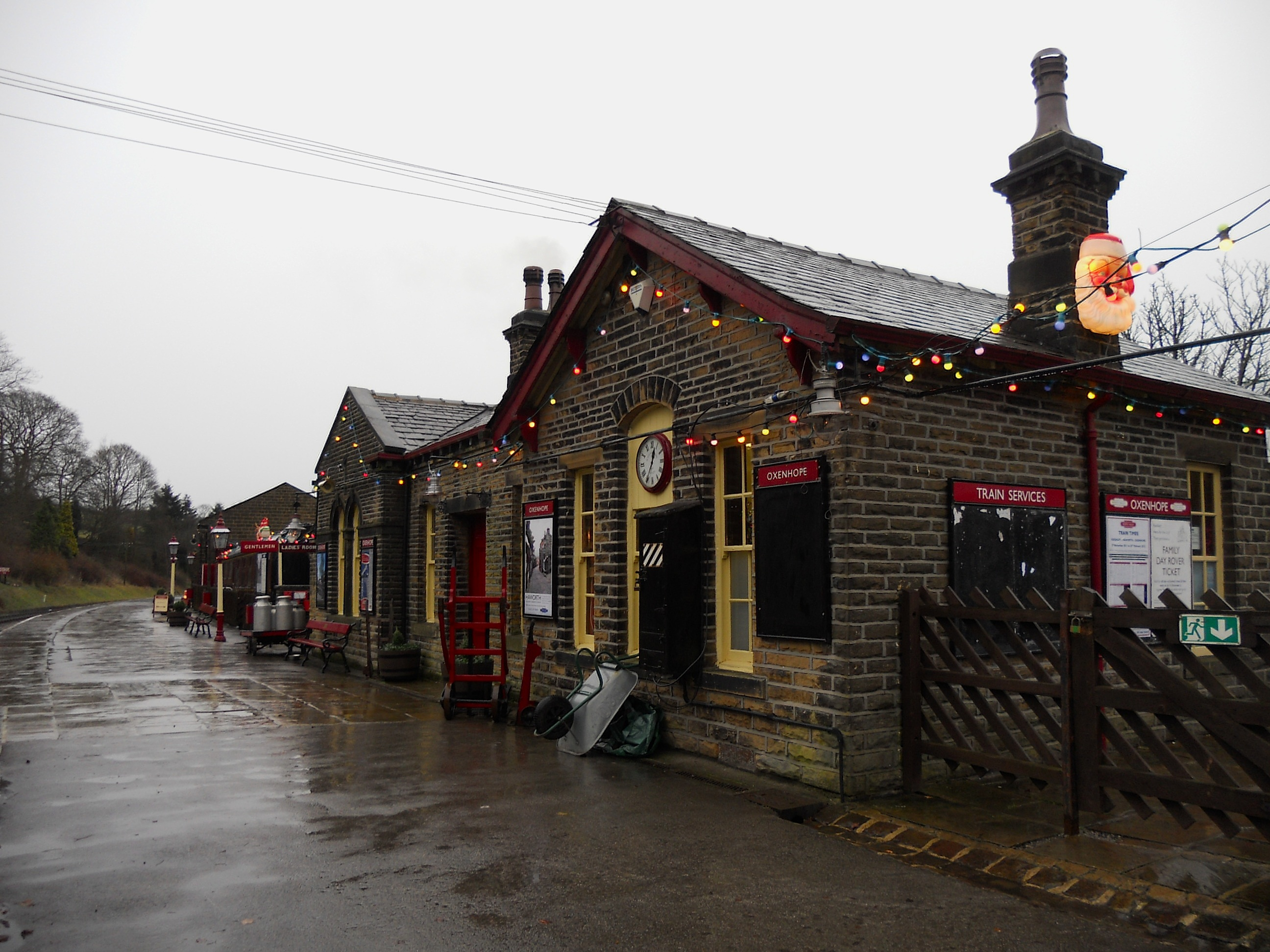 Oxenhope Station building on the Keighley and Worth Valley Railway